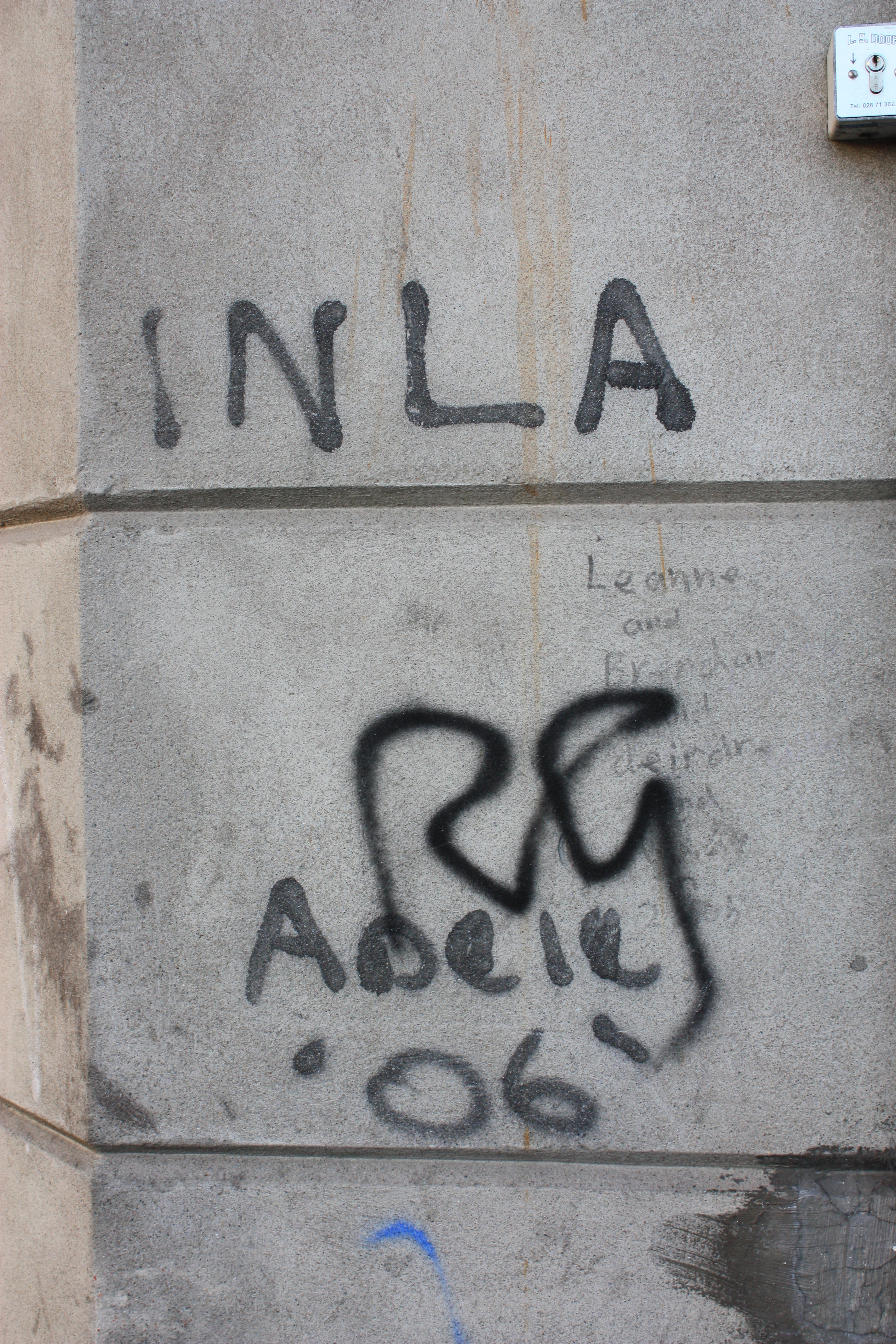 INLA graffiti, Railway Street, Strabane, County Tyrone, Northern Ireland, January 2010